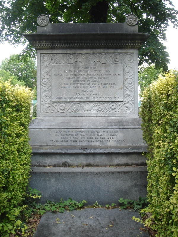 John Robinson McClean funerary monument, Kensal Green Cemetery, London